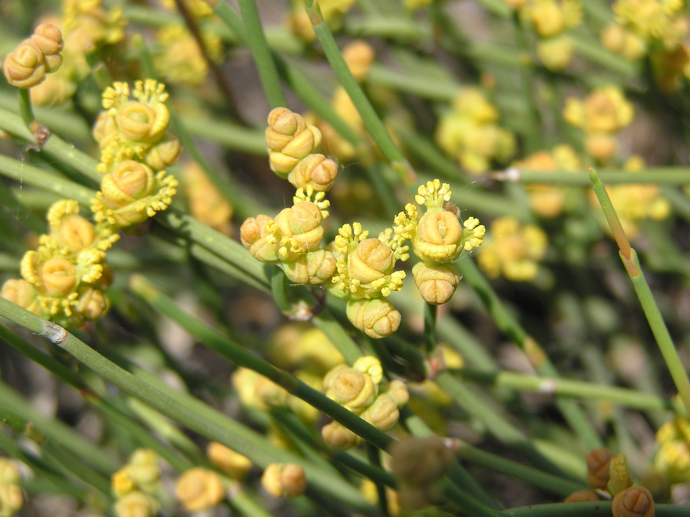 Ephedra distachya subsp. monostachya (L.) Riedl., male plant in bloom. Habitat: southern chalk slope. Vicinity of Saratov city, Russia.